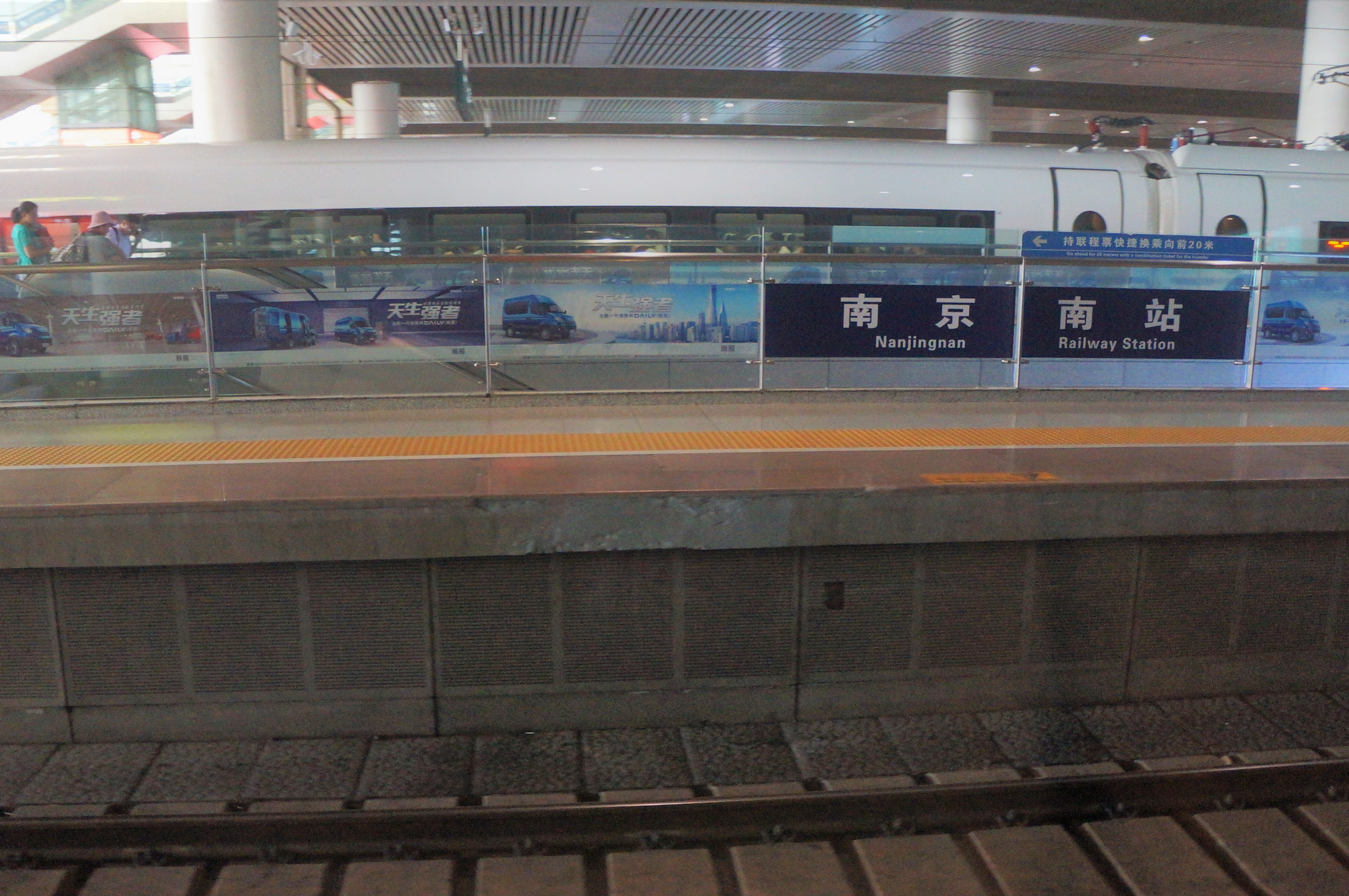 201806 Repaired Concrete Block on the Platform 21 of Nanjingnan Station, which was damaged by a man who attempted to cross the track and hit by a train entering into the station.